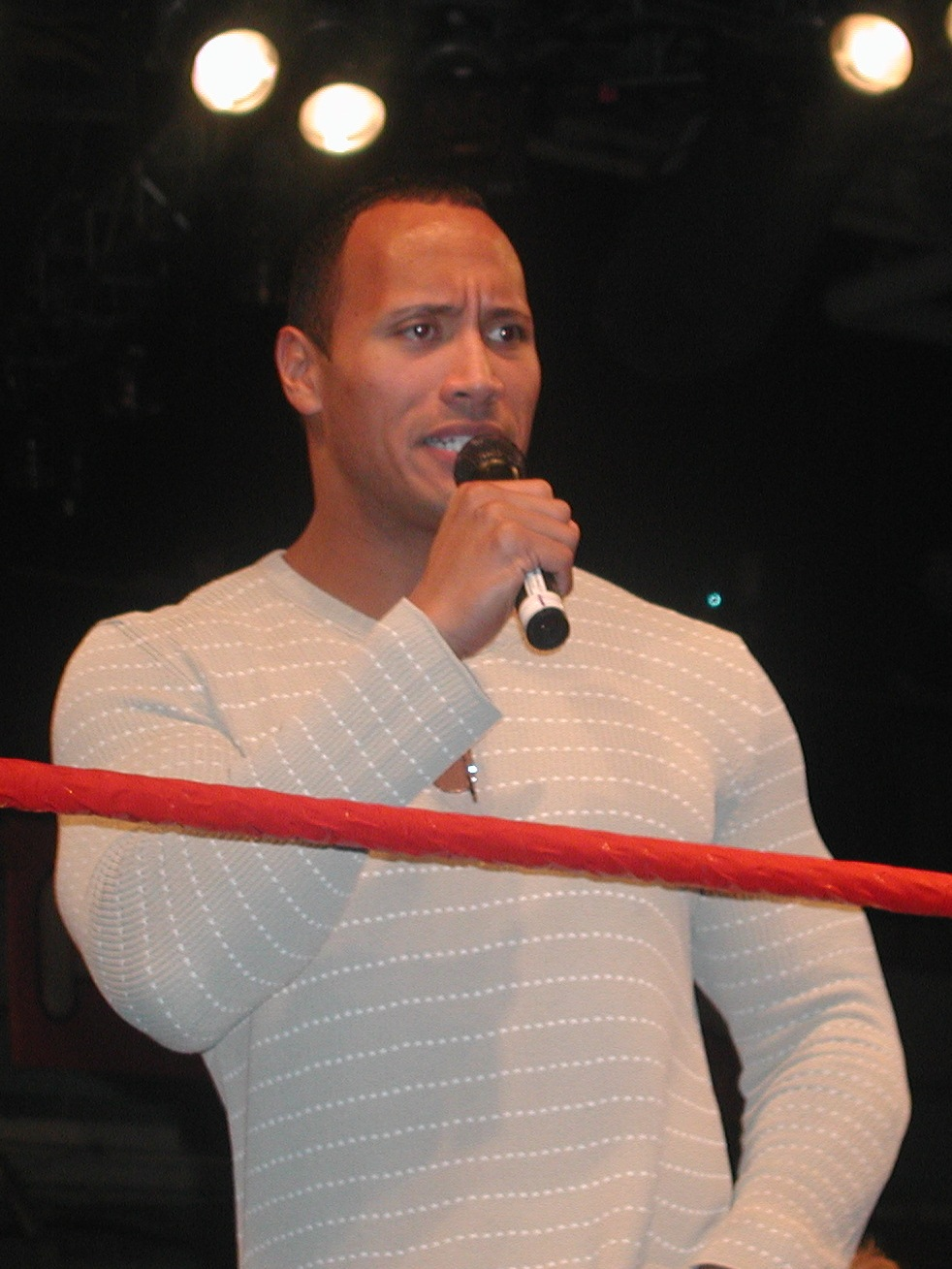 The Rock at WWF Fan Axxess. Toronto, Ontario, March 2002. Taken by me, cropped.